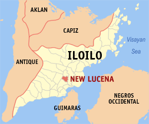 Map of Iloilo showing the location of New Lucena